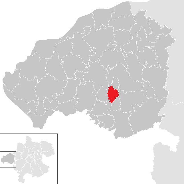 district Braunau am Inn